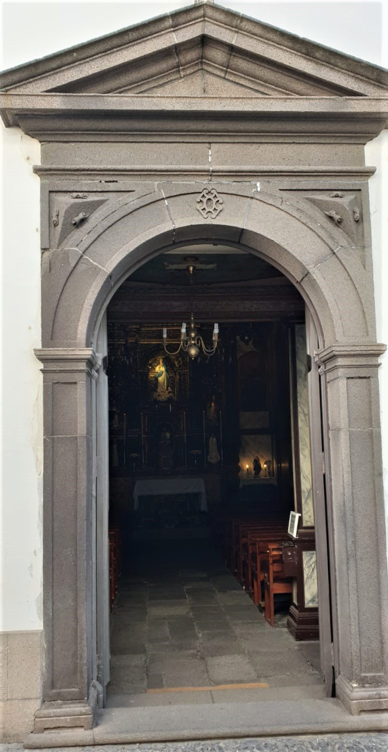 Porta de entrada para a capela da Nª Senhora da Conceição